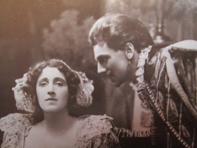 Julia Neilson and A. E. Anson in the play Henry of Navarre, about 1910.